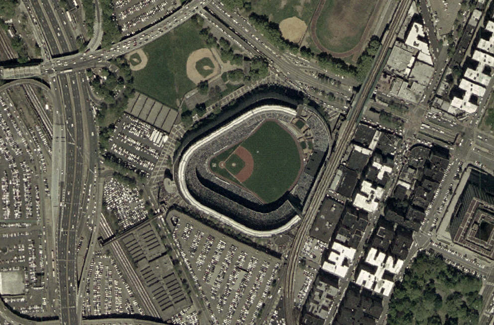 nasa world wind 1.3.5 30 août 2006 à 17:14 . . Betp . . 992×653 (1 369 230 octets)